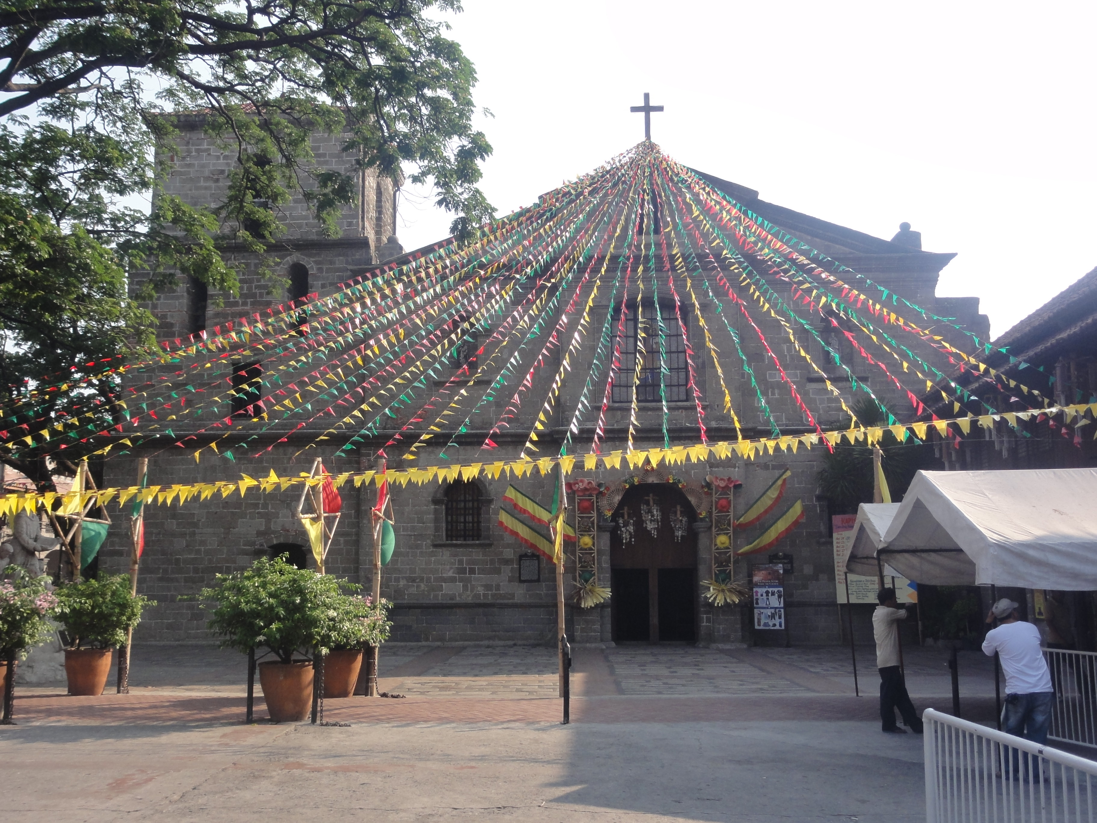 Front view of Saint Joseph's Cathedral along Quirino Avenue, Las Piñas City as of April 2015. it is known for being the home of the Bamboo Organ.